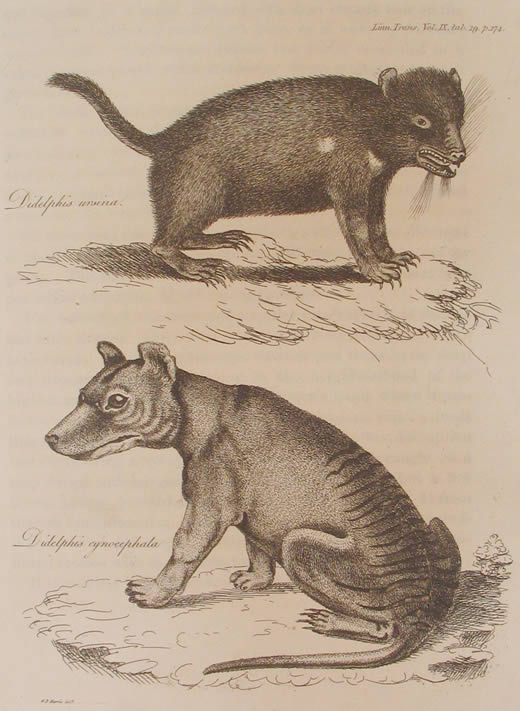 An illustration of Thylacinus cynocephalus and Sarcophilus harrisii. Engraving. The annotations on the image name the species as "Didelphis cynocephala" (bottom) and "Didelphis_ursina" (top). The signature at lower left is indistinct.